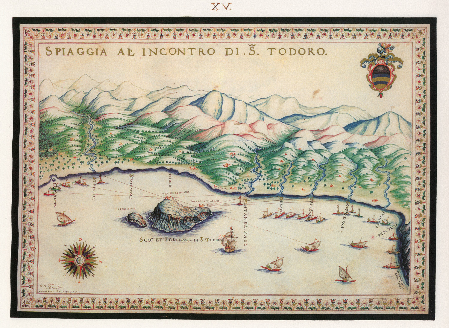 Spiaggia all'Incontro di STodoro - Francesco Basilicata - 1618